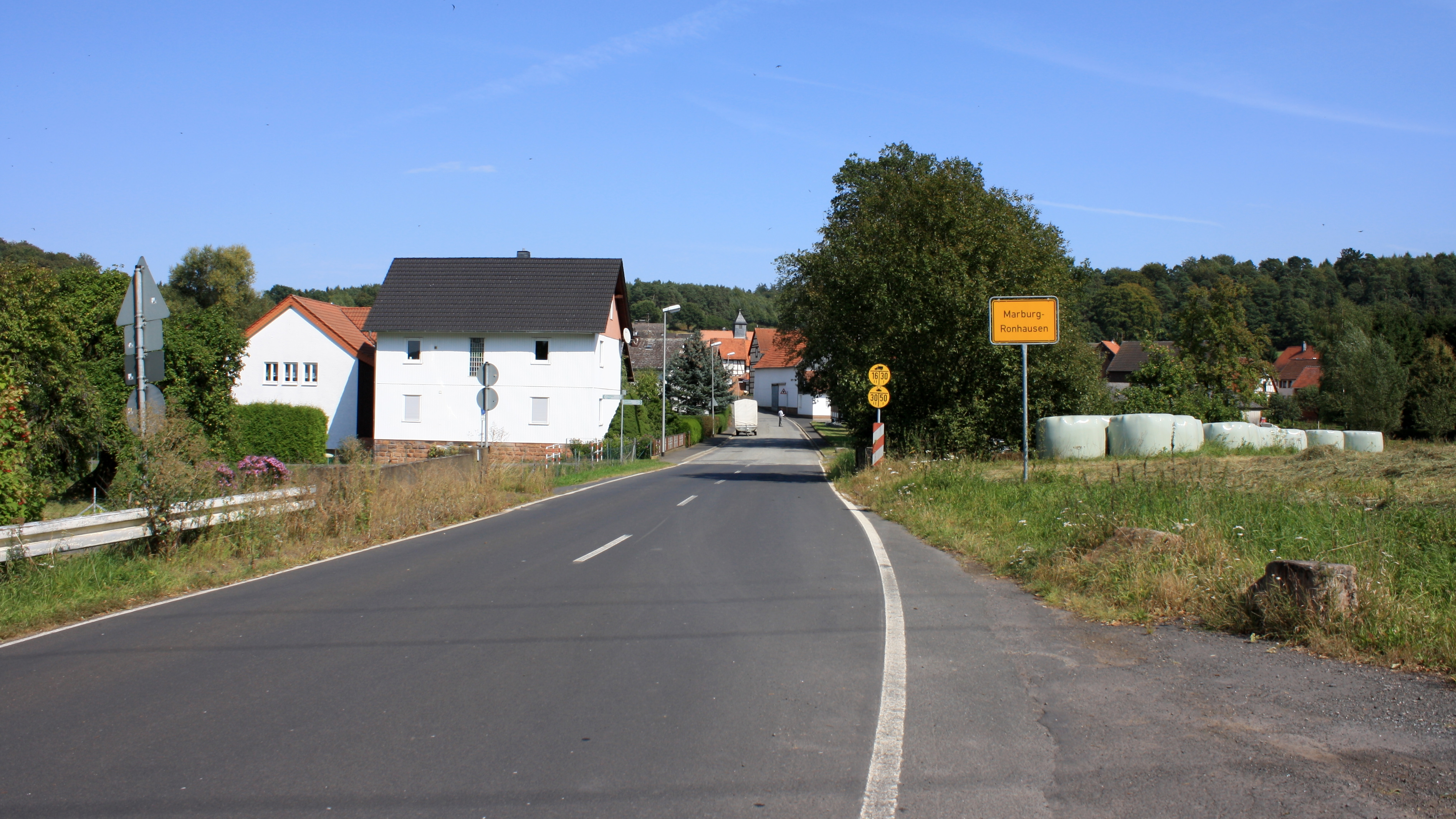 Western village entrance of Marburg-Ronhausen